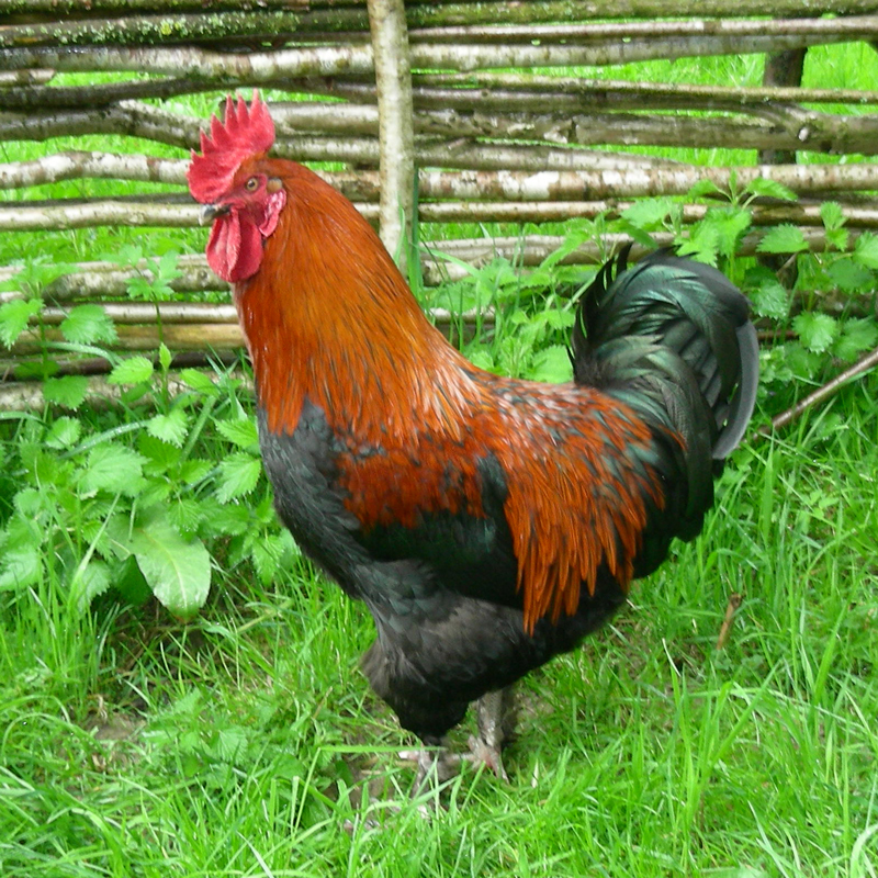 Marans Rooster